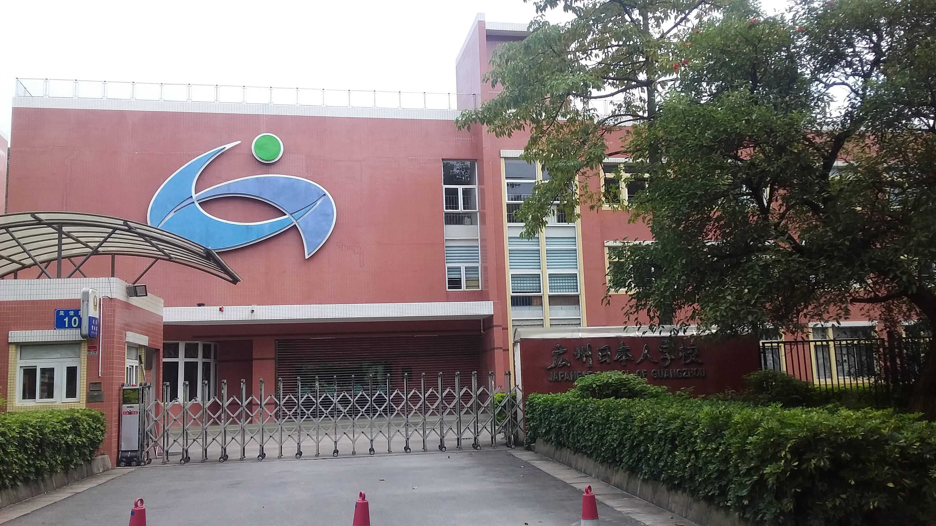 Japanese School of Guangzhou